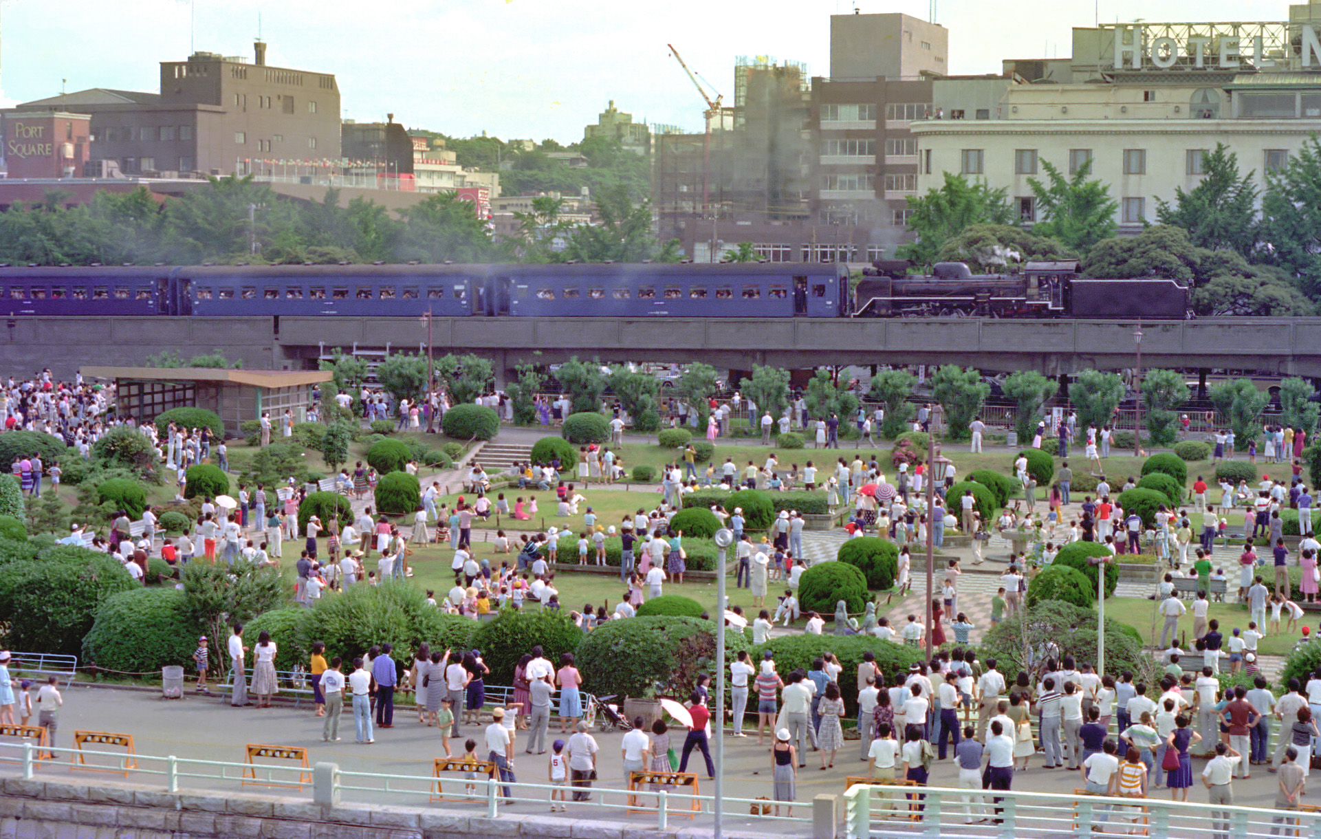 The 120th anniversary train of the opening of Yokohama port hauled by Class C58 steam locomotive C58 1 on the Takashima freight line. The photograph was taken from the deck of the Hikawa maru ship moored next to Yokohama Yamashita Park.